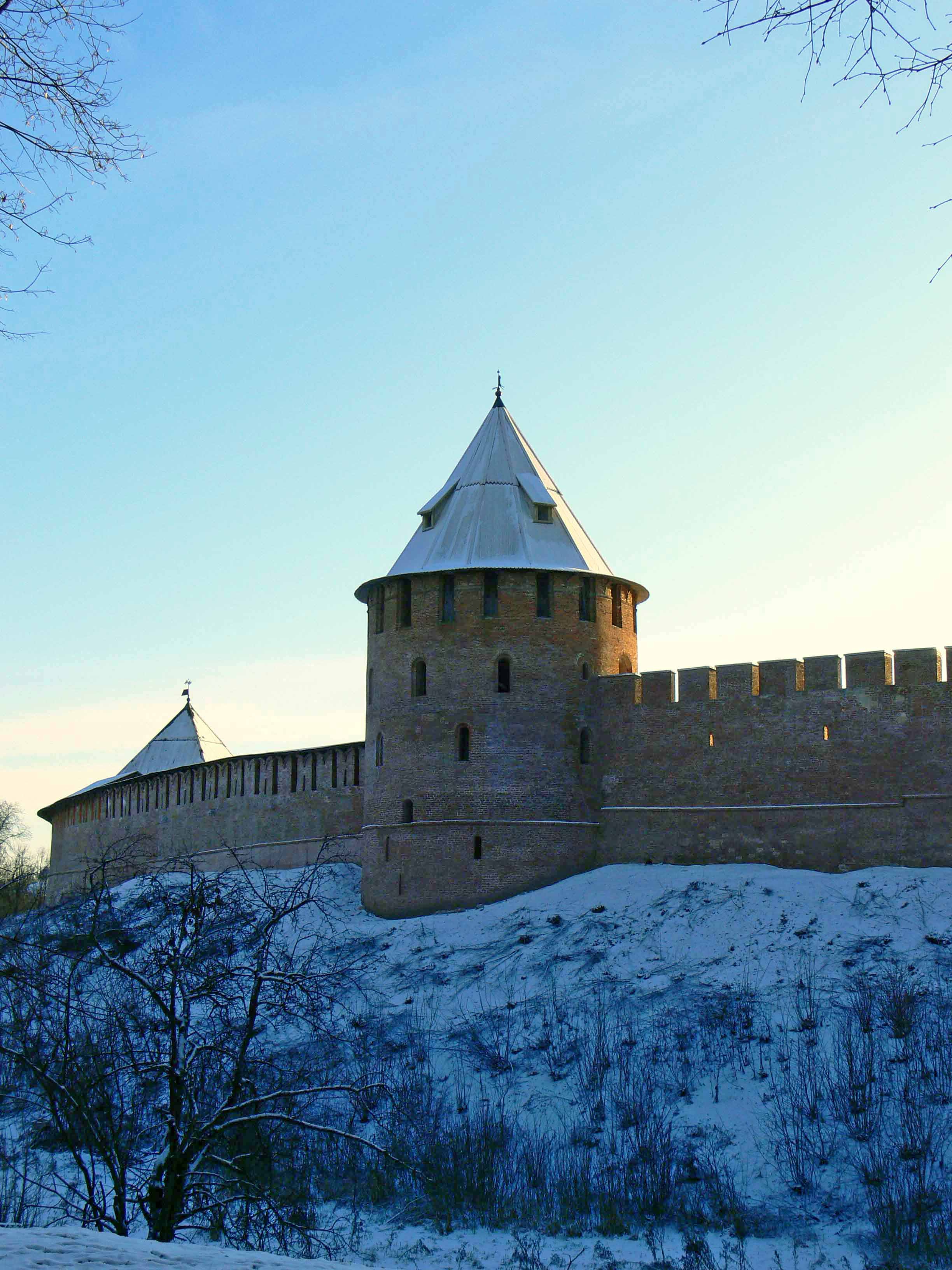 Fiodorovskaya, the northernmost tower of Detinets in Veliky Novgorod